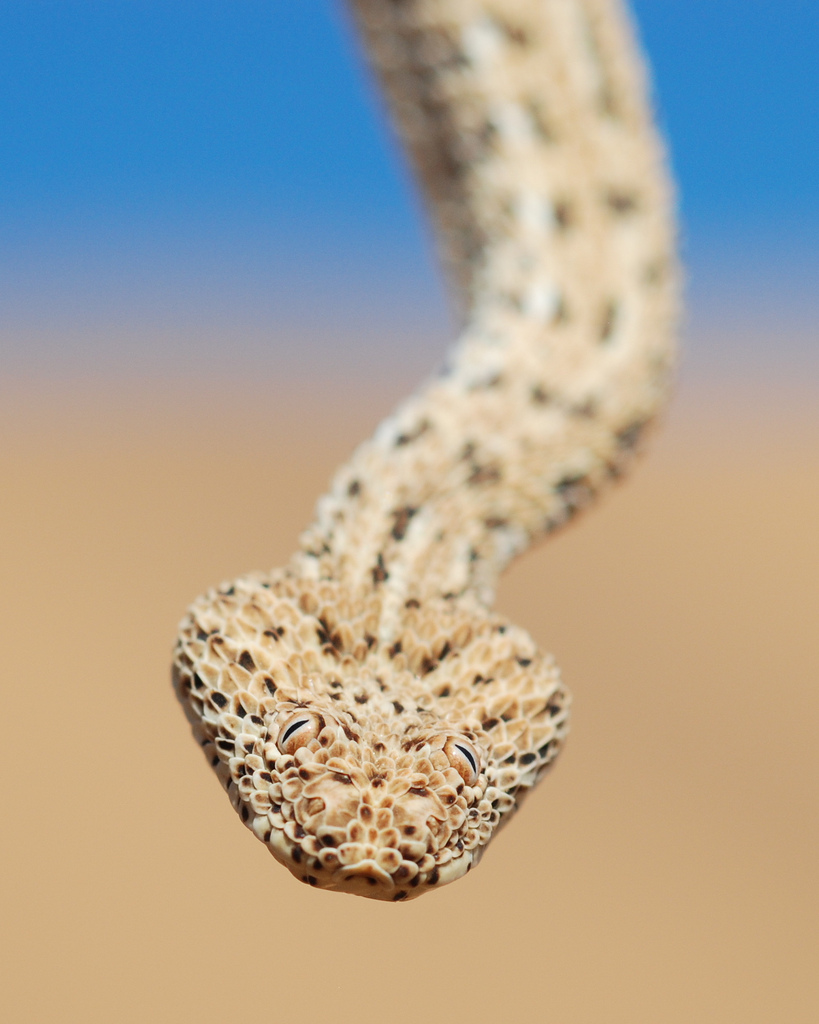 Namibian Sidewinder, Bitis peringueyi. With it eyes located on top of its head, the namibian sand viper/sidewinder is adapted for ambush predation partly buried in the sand. Swakopmund, Namibia